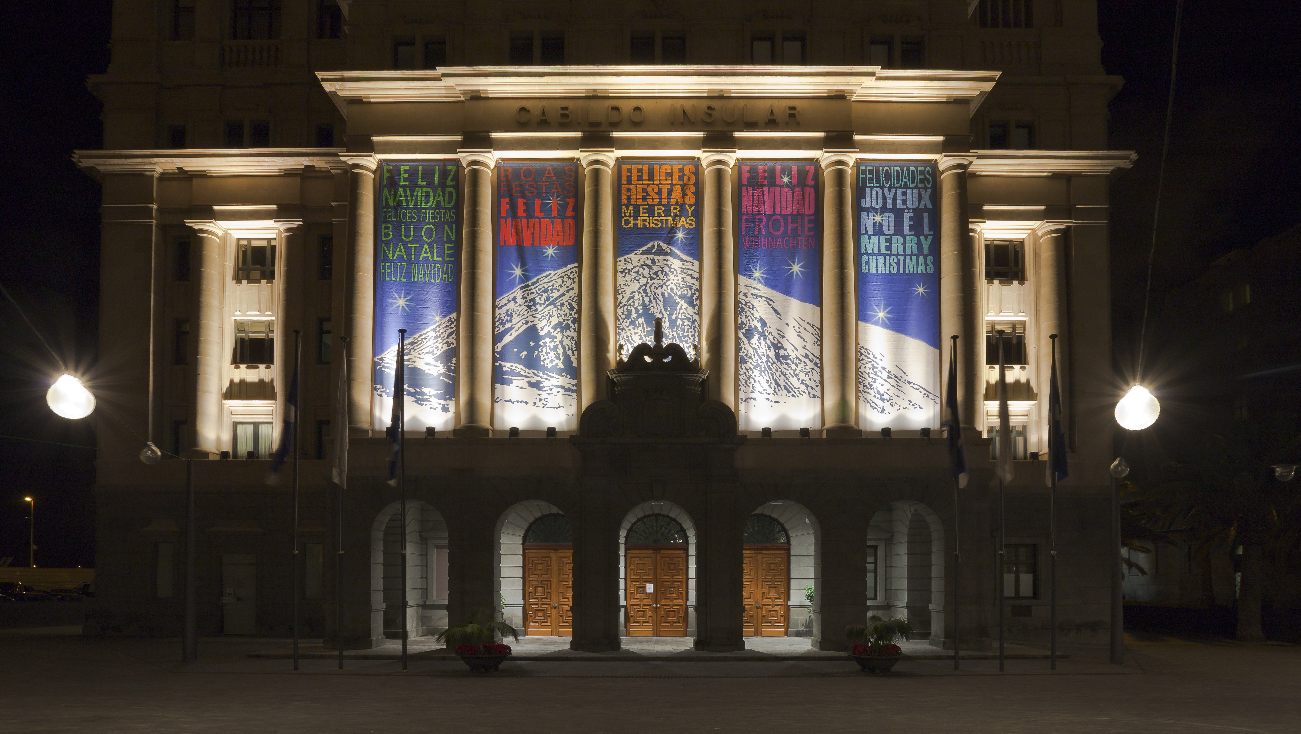 Island Cabildo of Tenerife, Santa Cruz de Tenerife, Spain